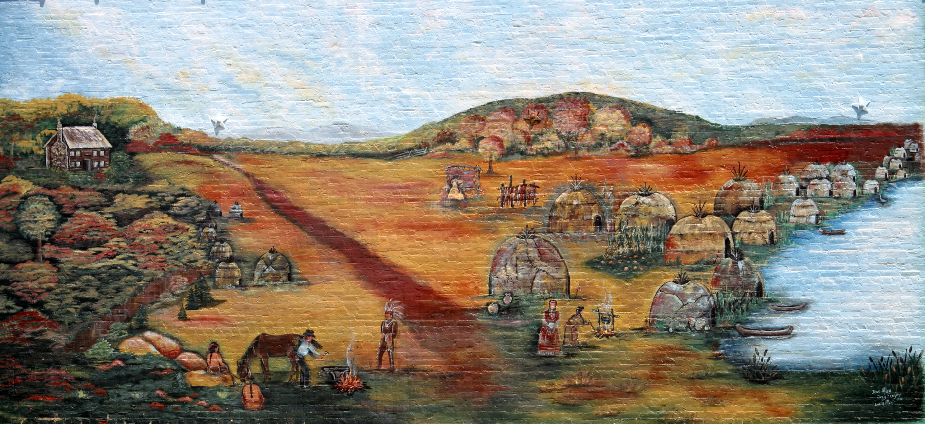 A mural seen from the intersection of 4th and Commercial streets in Oswego, Kansas. A reproduction of E. Marie Horner's “The Village of White Hair”, it was painted by Joan Allen, with Larry Allen and Jerg Frogley. The mural depicts the relationship between John Mathews, a white fur trader and blacksmith who lived on the summit, and the Osage, led by Chief White Hair, who dwelled east of the bluff near Horseshoe Lake, circa 1841. The original painting is exhibited in the Oswego Historical Museum, and the mural was sponsored by the Oswego Historical Society.